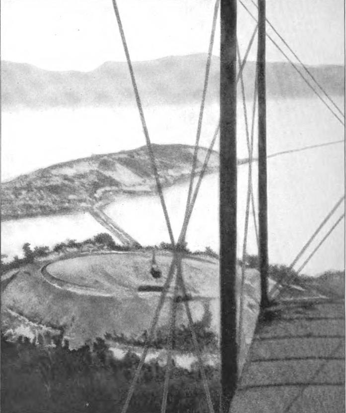 Panama by air, photograph by Ray Duhem, published in Sunset, April 1914. Prompted legal action by U. S. government.